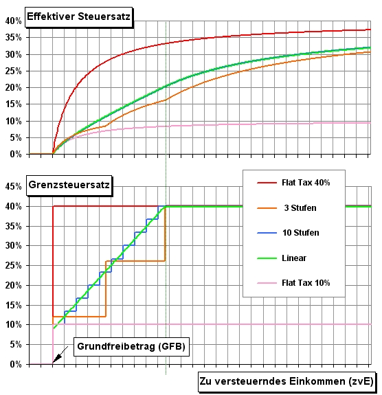 Comparison of progressive taxes